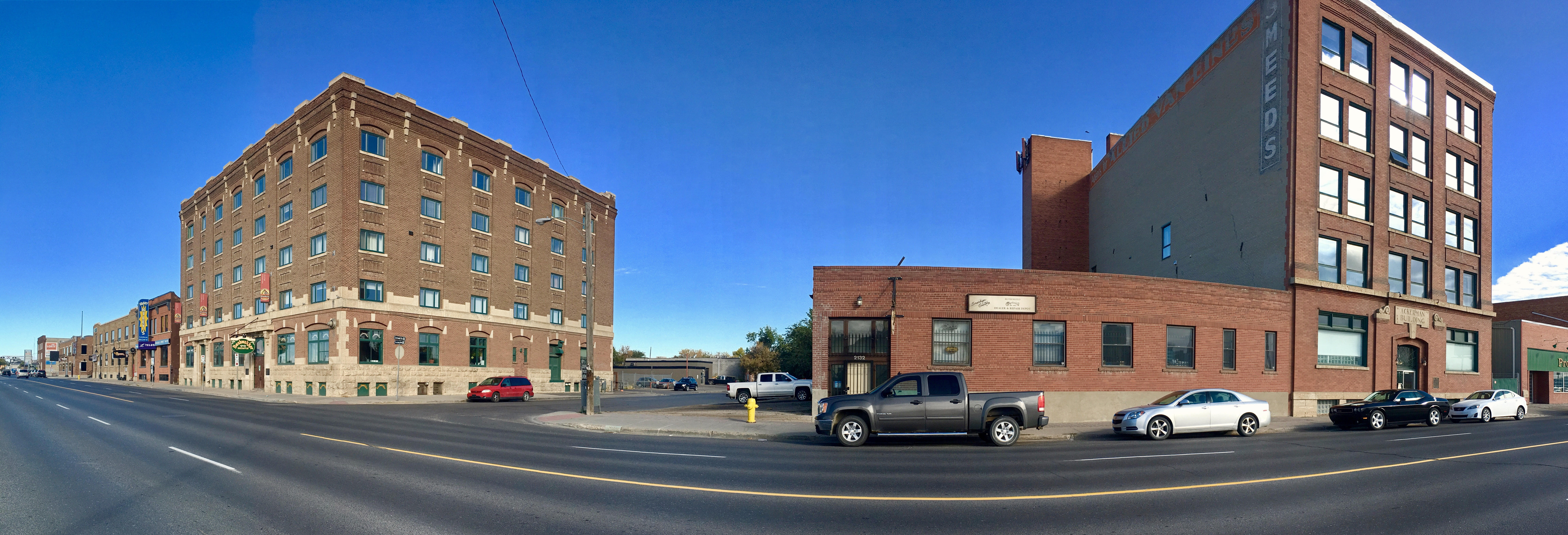 Warehouse District, Regina, Saskatchewan, 2017